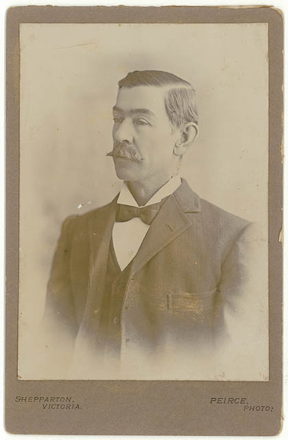 Format: Silver gelatin photoprint Notes: Joseph Furphy (1843-1912) was an Australian novelist, poet, short story writer and bushman. Using the pen name 'Tom Collins' his best-known work is 'Such is life'. Find more detailed information about this photographic collection: .au/item/itemDetailPaged.aspx?itemID=402532 Search for more great images in the State Library's collections: .au/search/SimpleSearch.aspx From the collection of the State Library of New South Wales